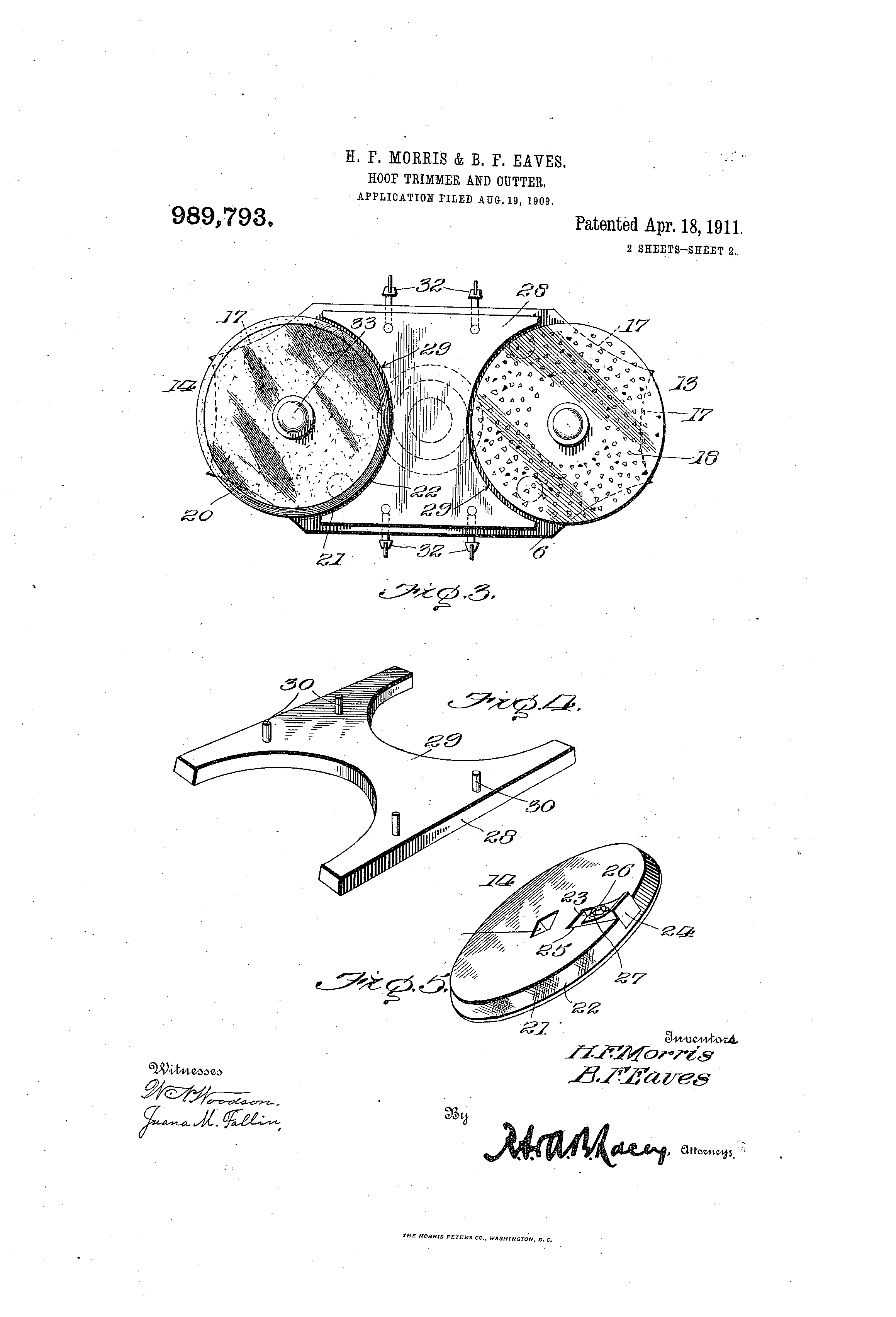 Hoof Trimmer and Cutter Patented by Benjamin Franklin Eaves and H.F. Morris